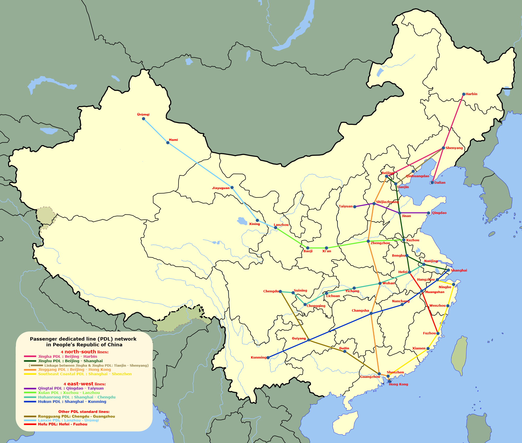 Passenger dedicated line (PDL) network in China. 5 north-south lines + 3 east-west lines（The line from Urumqi to Lianyungang is one of the north-south lines )